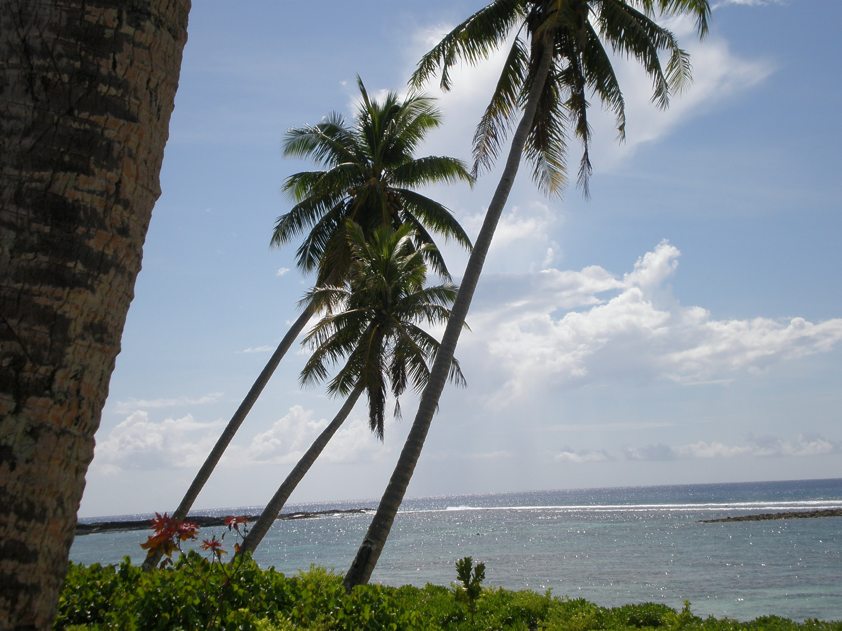 Savai'i coastal scenery, palm trees & sea at Falealupo village, Samoa 1 (I've already uploaded this image in wikipedia, but I didn't know how to move it into wiki commons, so I've uploaded it here again.Teinesavaii (talk) 11:11, 29 September 2009 (UTC)